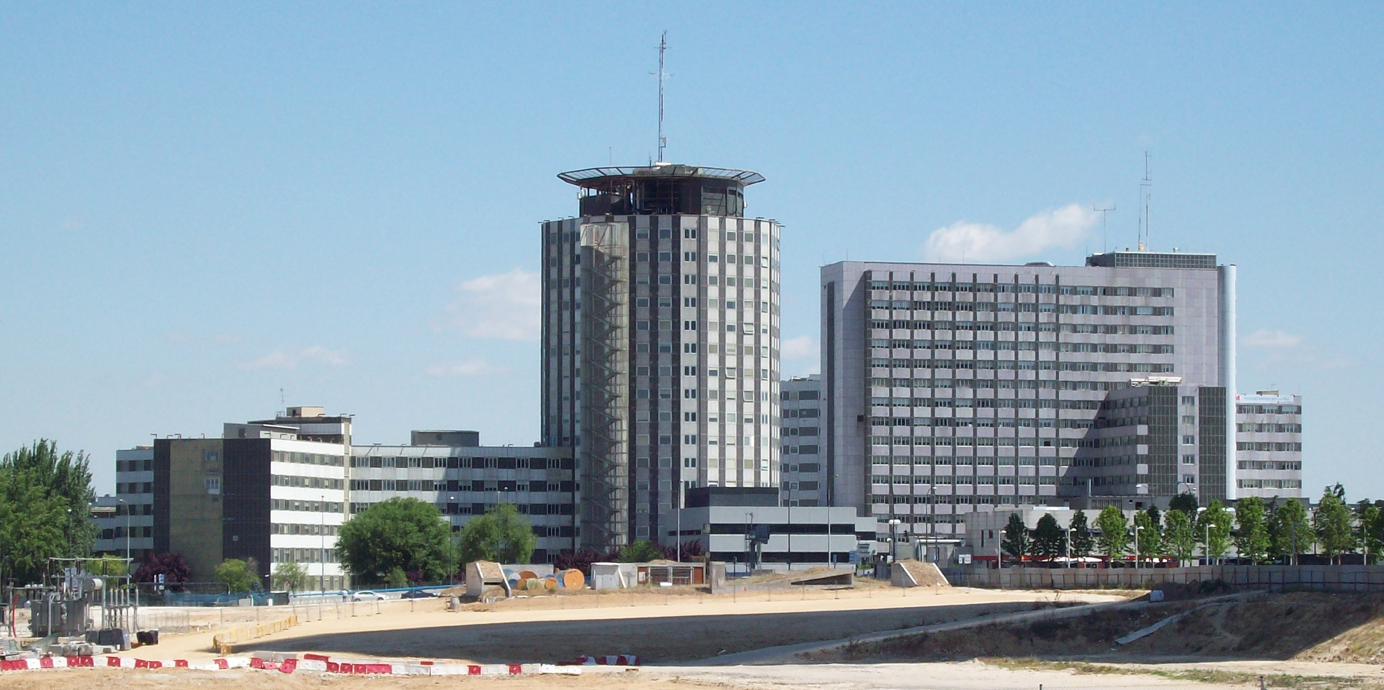 View of La Paz University Hospital in Madrid (Spain) from Avenida de Monforte de Lemos (avenue) in Fuencarral-El Pardo district. Buildings were completed in 1964.